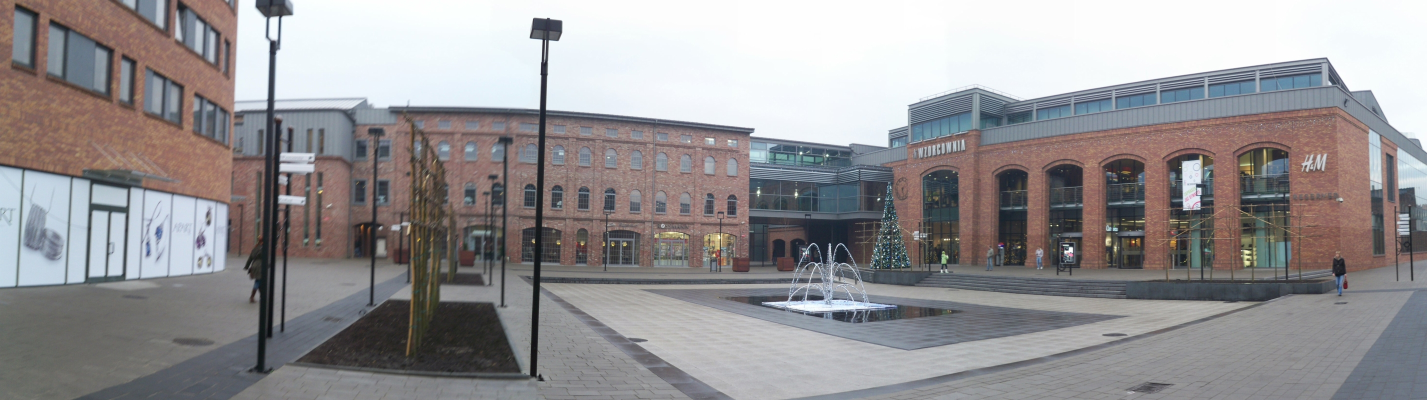 WZORCOWNIA is located on the site of 19th-century historical factories.